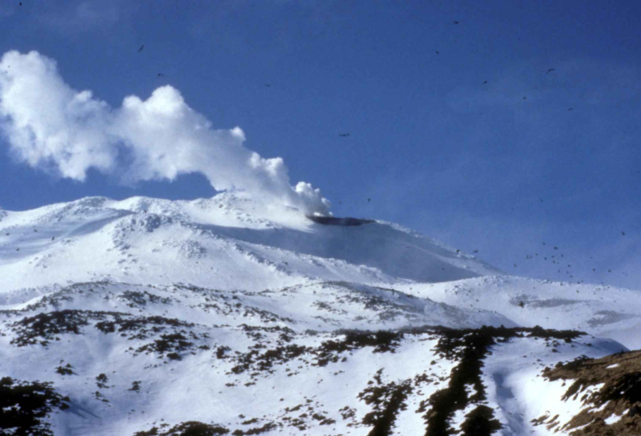 Image title: Kiska volcano eruption volcanoes eruption landscape Image from Public domain images website